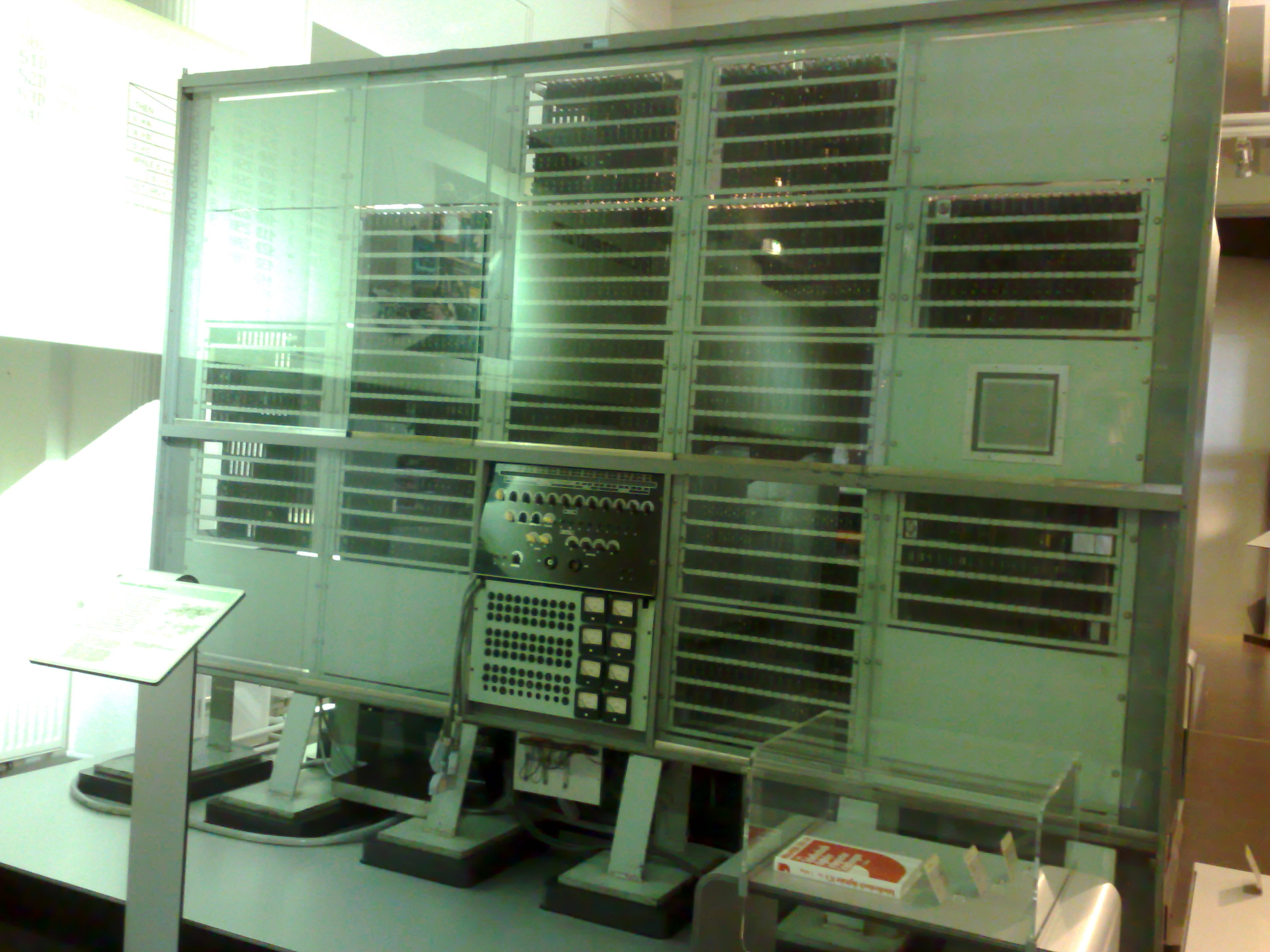 This picture is a photo of the transistor computer "Mailüfterl" built by Heinz Zemanek in 1955